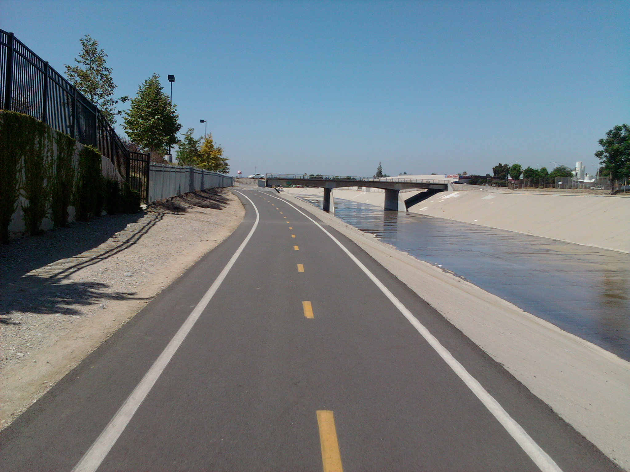 The Rio Hondo bicycle path along the channelized Rio Hondo (creek) by the city of Rosemead — in the San Gabriel Valley of Los Angeles County, Southern California. Above the confluence of the Rio Hondo with the Los Angeles River.